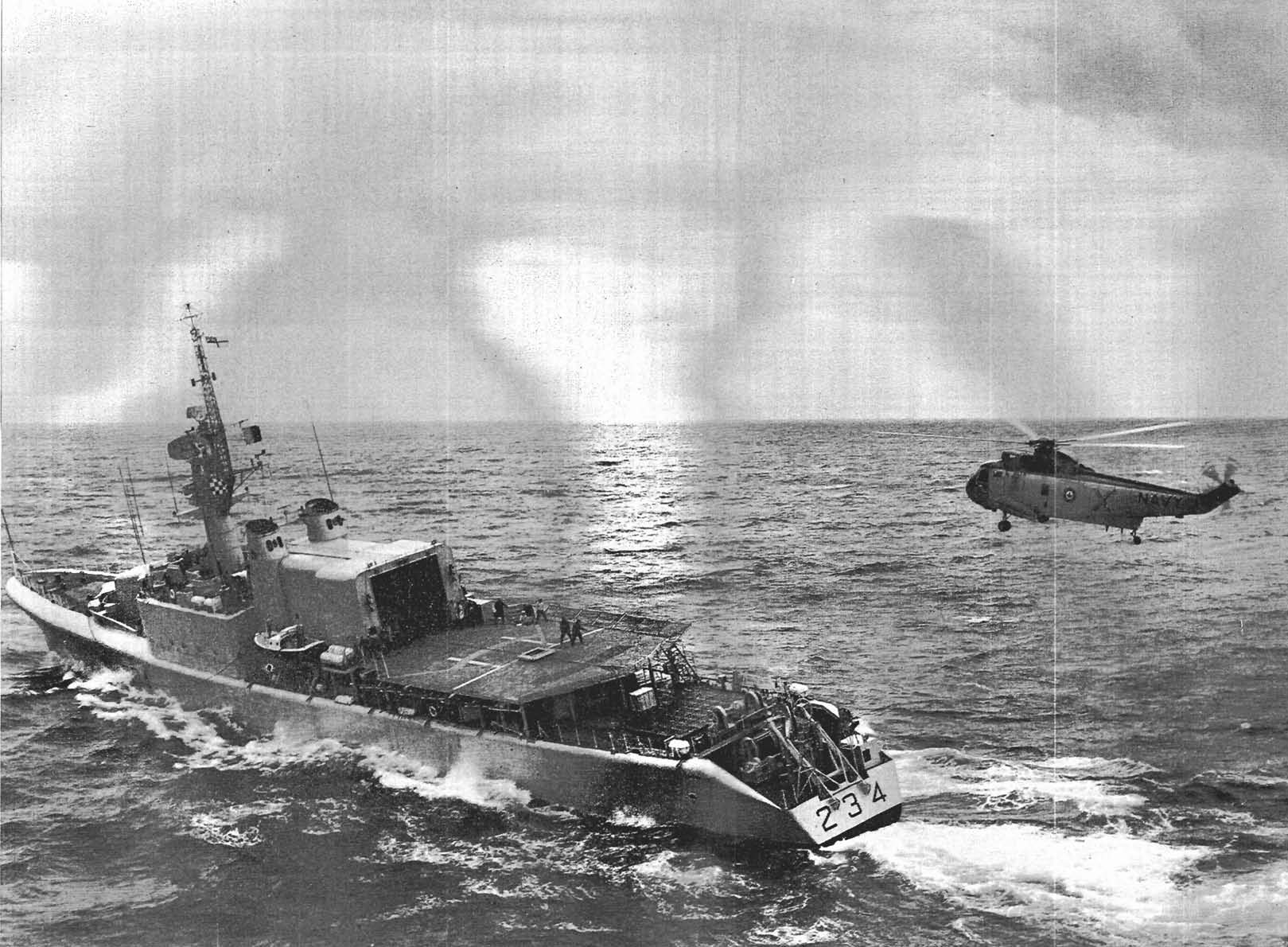 A Sea King (CHSS-2) helicopter about to land on the flight deck of the HMCS Assiniboine (DDH 234). The small rectangle is the "bear trap", a device which holds the helicopter firmly to the deck, yet permits its movement to and from the hangar.